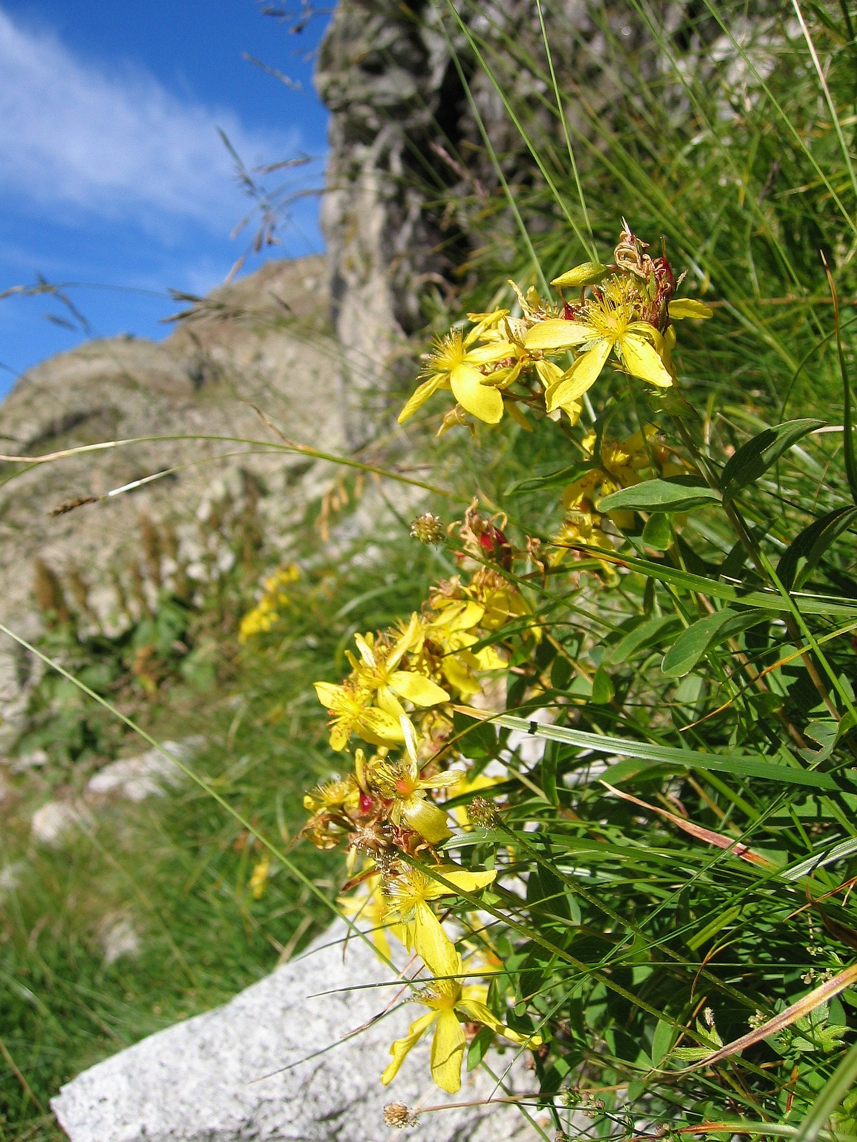 Hypericum_richeri subsp. burseri, Near Lacs d´Arriel ~2100 m, Pyrenees, Spain